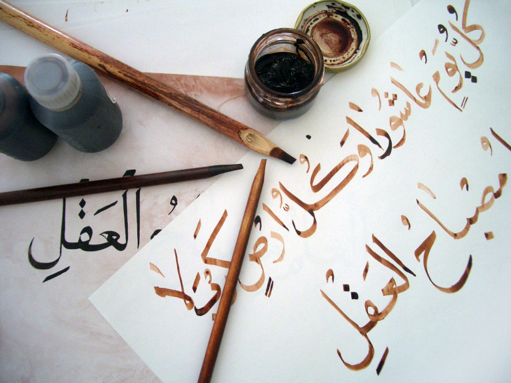 The work of a student of Arabic calligraphy, using bamboo pens (qalams) and brown ink, tracing over the teacher's work in black ink. The text is: كل يوم عاشورا وكل أرض كربلا